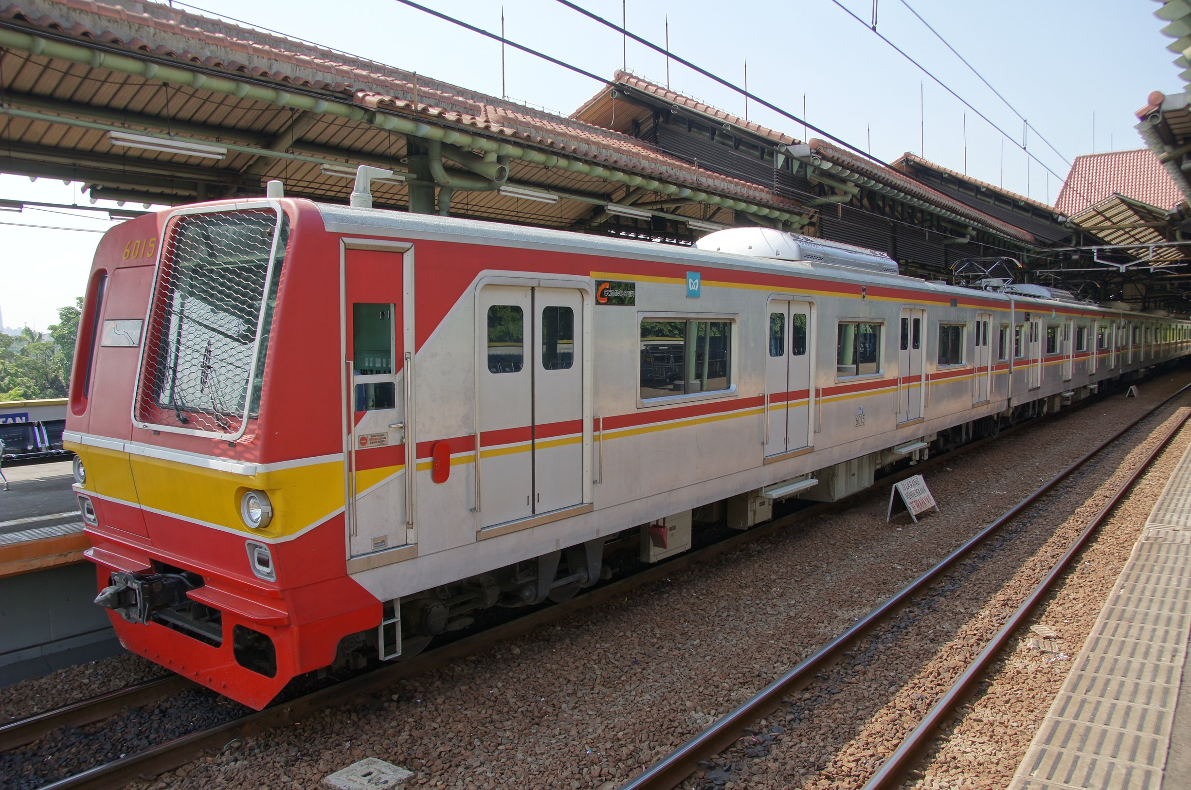 Former Tokyo Metro 6000 series EMU set 6115 at Gambir Station in Jakarta, Indonesia, on a KRL Jabotabek commuter service